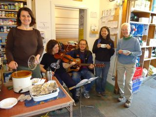 Member's of Toronto karma co-op health food store play music and share food.